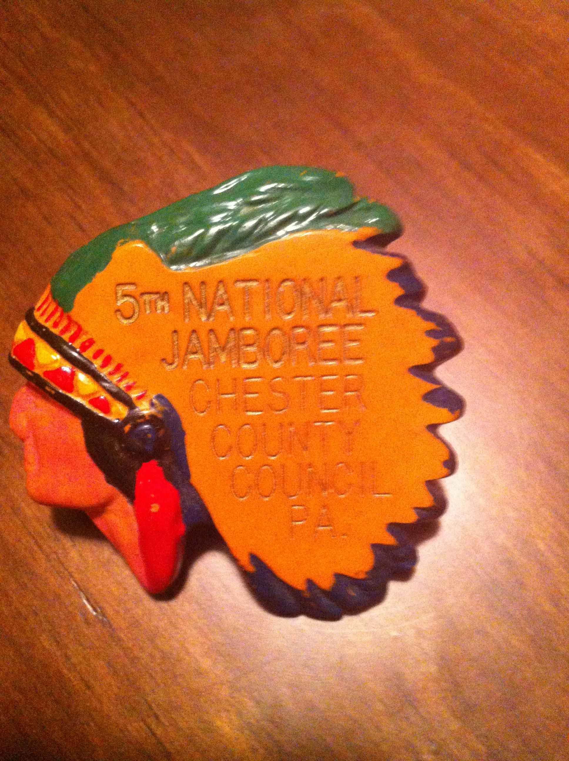 Neal Slide